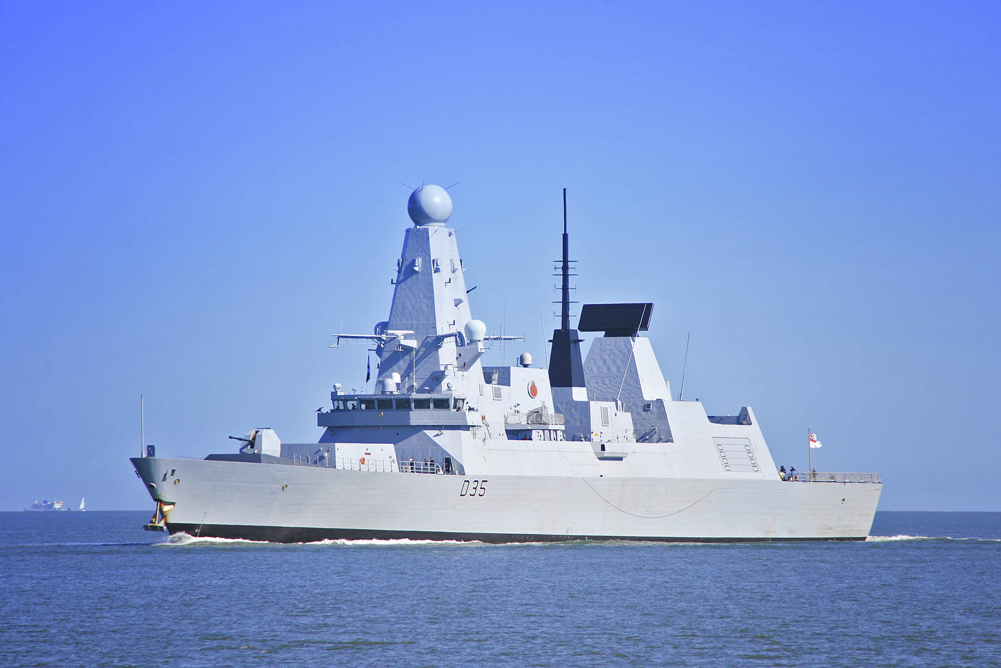 Royal Navy Type 45 class air-defence destroyer HMS Dragon (D35) photographed on 01 May 2012 by Brian Burnell rounding Calshot Spit at the southern end of Southampton Water, while inbound to Marchwood Military Port from Liverpool, UK. Wikipedia editors are reminded that the copyright remains with the photographer, and that the terms of the Creative Commons (CC), Attribution (BY), Share Alike (SA) CC-BY-SA-3.0 that allow editors to reuse this image apply to Wikipedia editors also, as they do to other re-users of this image. Breaches of the licence terms are not only unlawful, but are also antisocial, in that breaches discourage photographers from making their images freely available to everyone without payment. Wikipedia re-users are also reminded of the license terms that derivatives of this image should not imply that the adaptation is endorsed or approved by the author or copyright holder. Neither should derivatives be presented as the creation of the author or copyright holder, while clearly stating that the adaptation is a derivative of the original. Attribution online should be in this format Brian Burnell. On the printed page, a simpler form is acceptable - example: "Image: Brian Burnell".